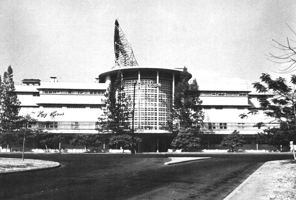 View of the Manila Jai Alai Building (built 1940, demolished 2000) — formerly on Taft Avenue, in the Ermita district of Manila, the Philippines. Designed in the Streamline Moderne style by Los Angeles architects Wurdeman and Becket.